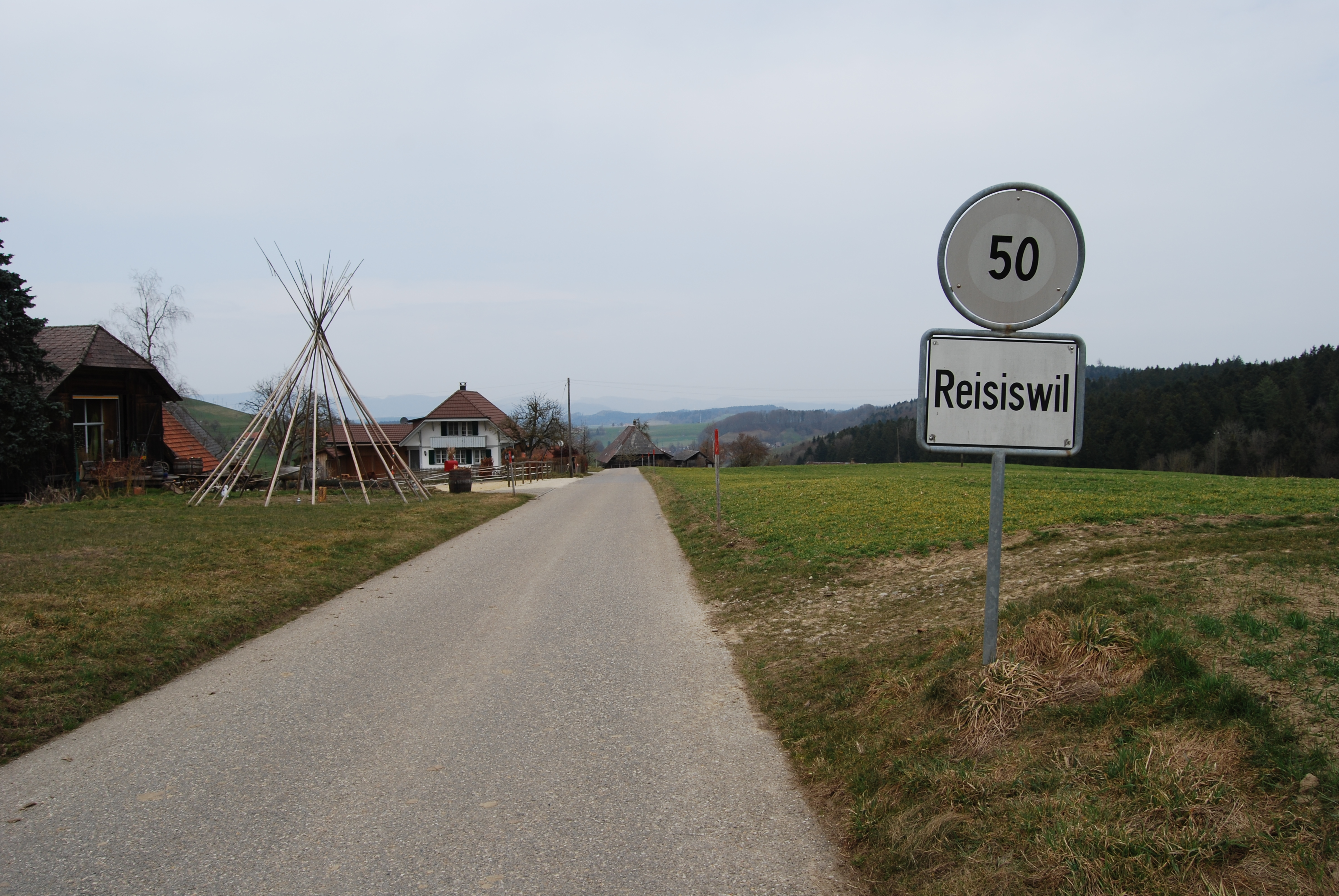 Reisiswil, canton of Bern, SwitzerlandEsperanto: Reisiswil, Kantono Berno, Svislando